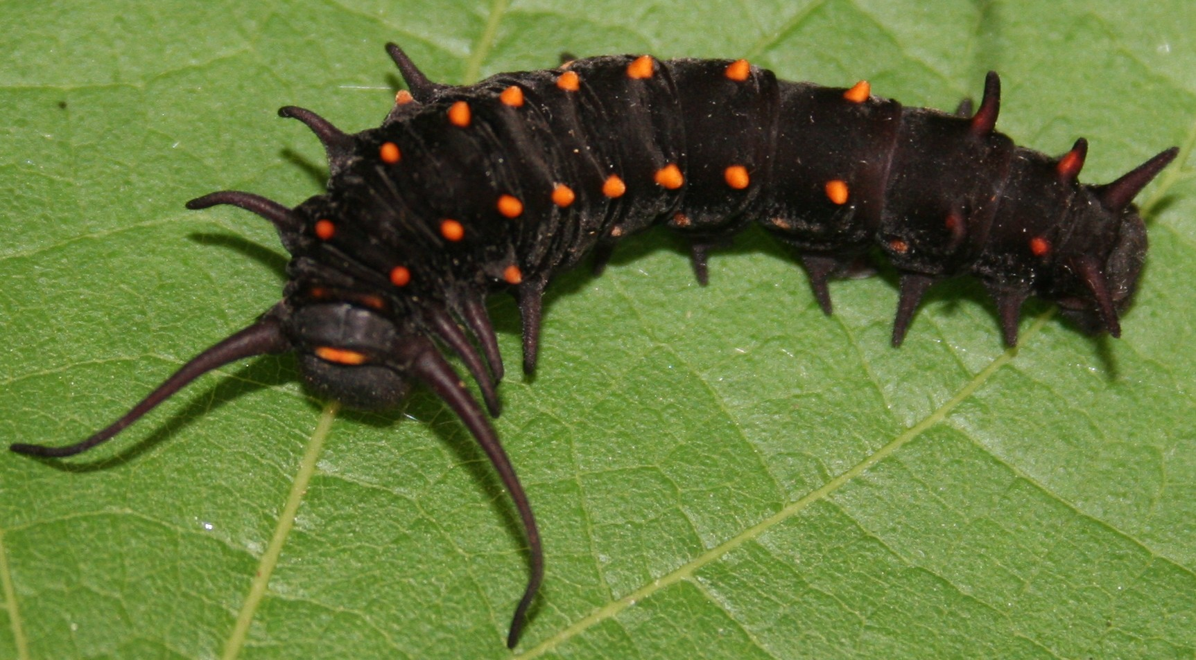 Pipevine Swallowtail (Battus philenor) larva